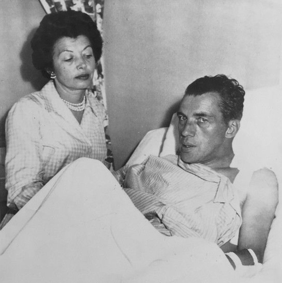 Original 1956 Wire Press Photo Ed Sullivan Car Crash Griffin Hospital Derby CT